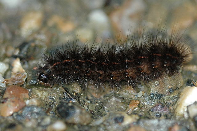 Picture taken in Commanster, Belgian High Ardennes . Species: Spilosoma lubricipeda